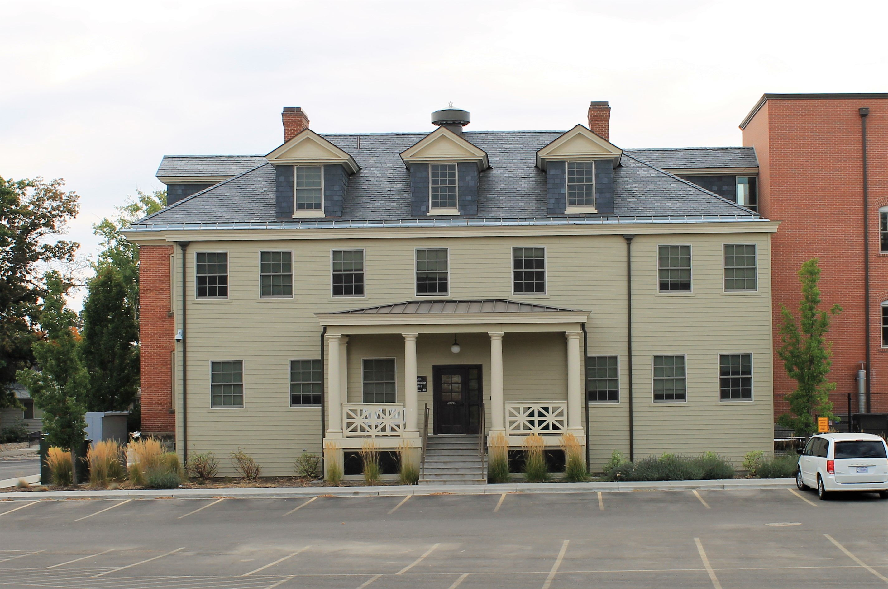 This is one building attached to New Fort Boise located in present-day Boise, Idaho.